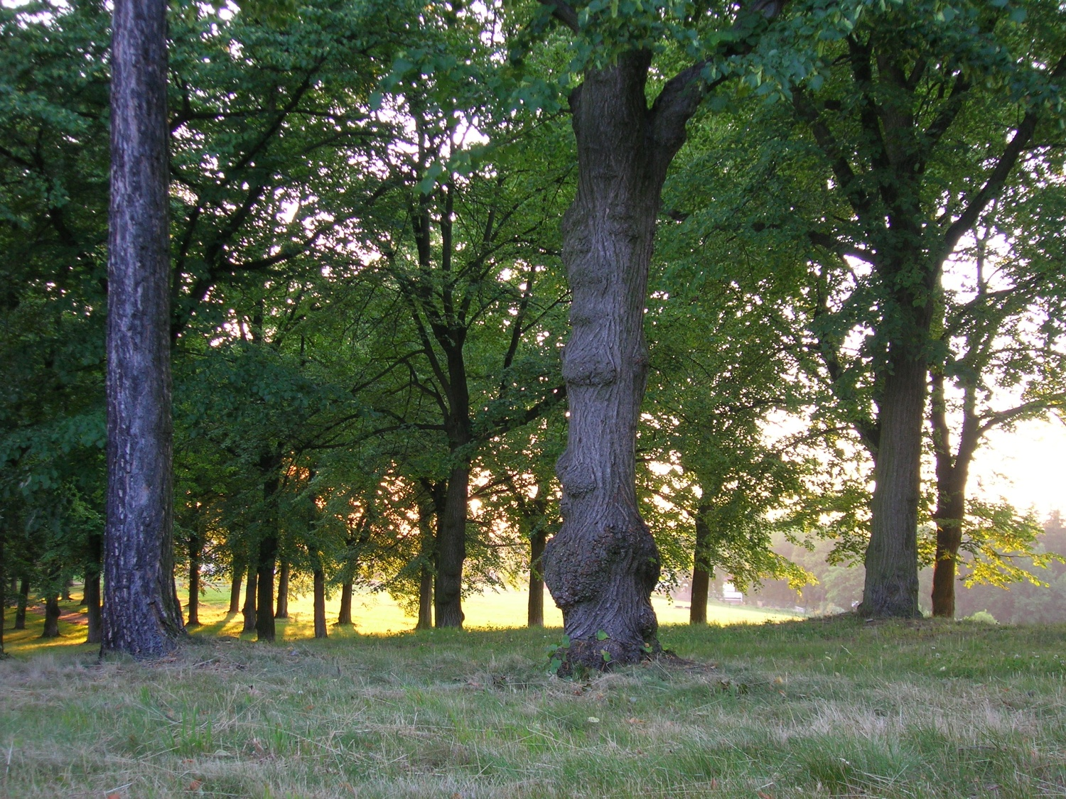 Třebíč-Podklášteří. Hrádek. Park